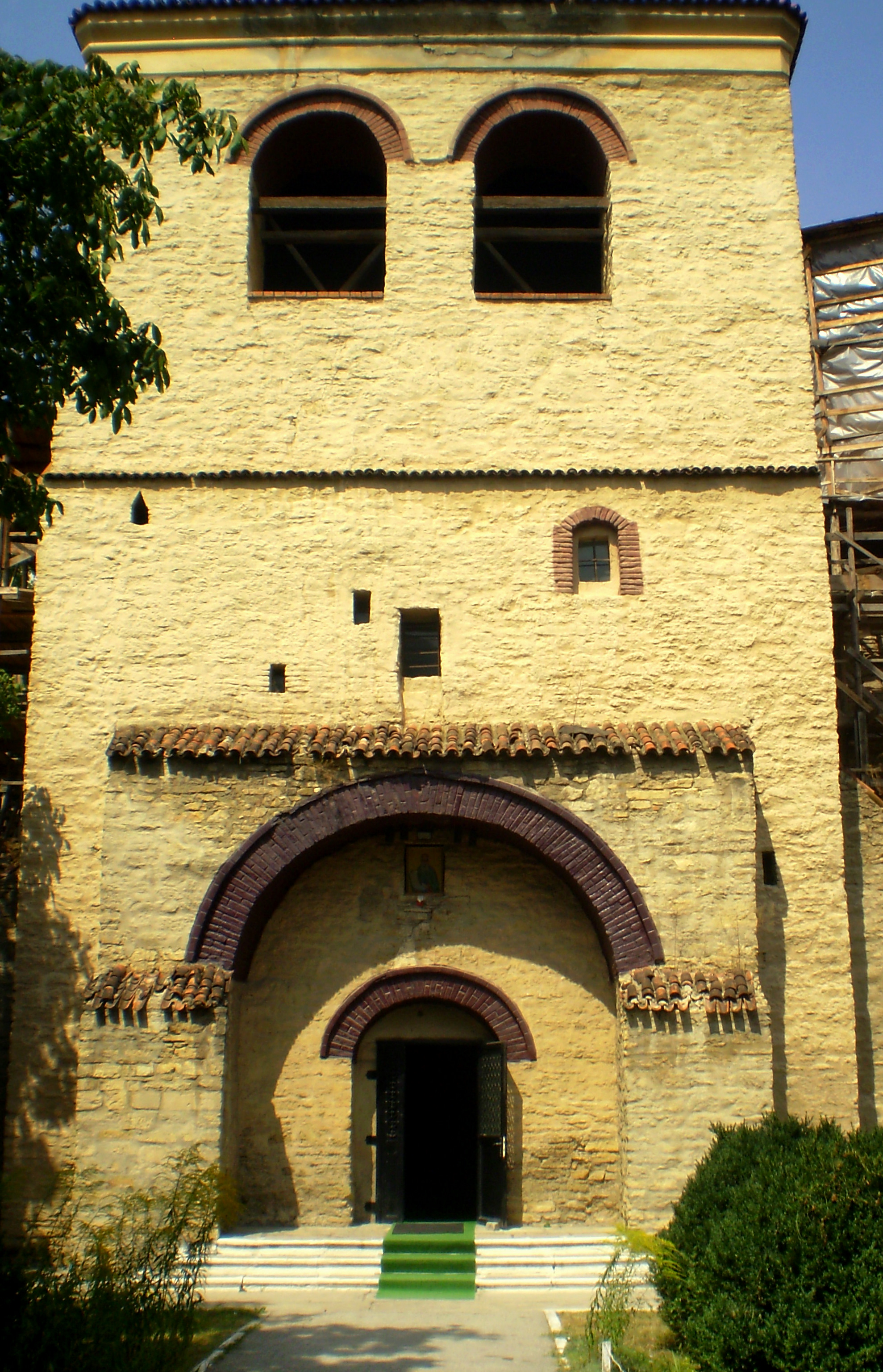 "St.Sava" Church ,Iaşi,RomaniaRomână: Iaşi , Biserica "Sf. Sava" ,Iaşi, România